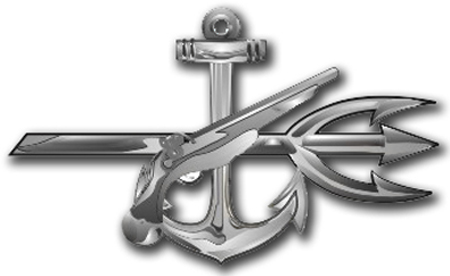 US Navy Special Warfare Operator (SO). Flintlock pistol superimposed onto an anchor and trident